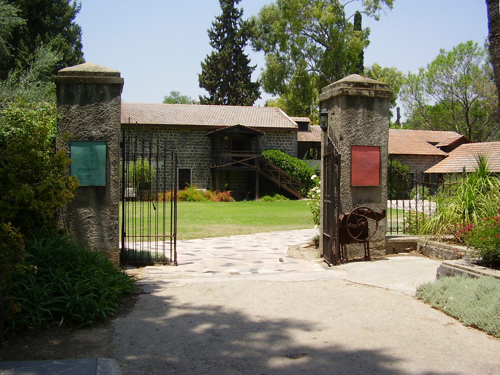 Kibbutz Degania Alef